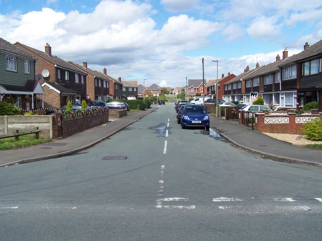 Red Lion Crescent, Norton Canes